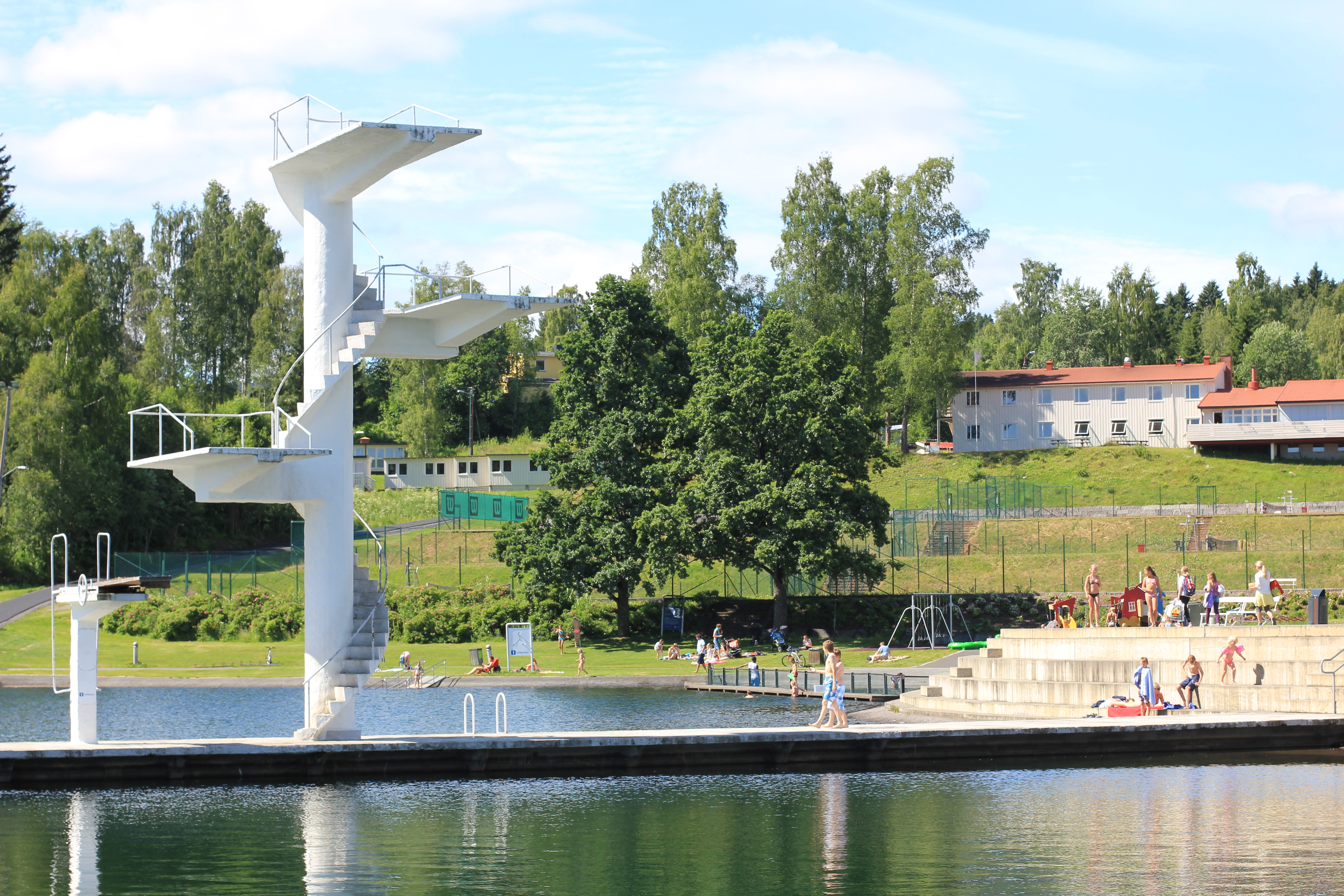 Fastland bathing facilities at Gjøvik, Oppland, Norway. In the background is Hovdetun Hostel.